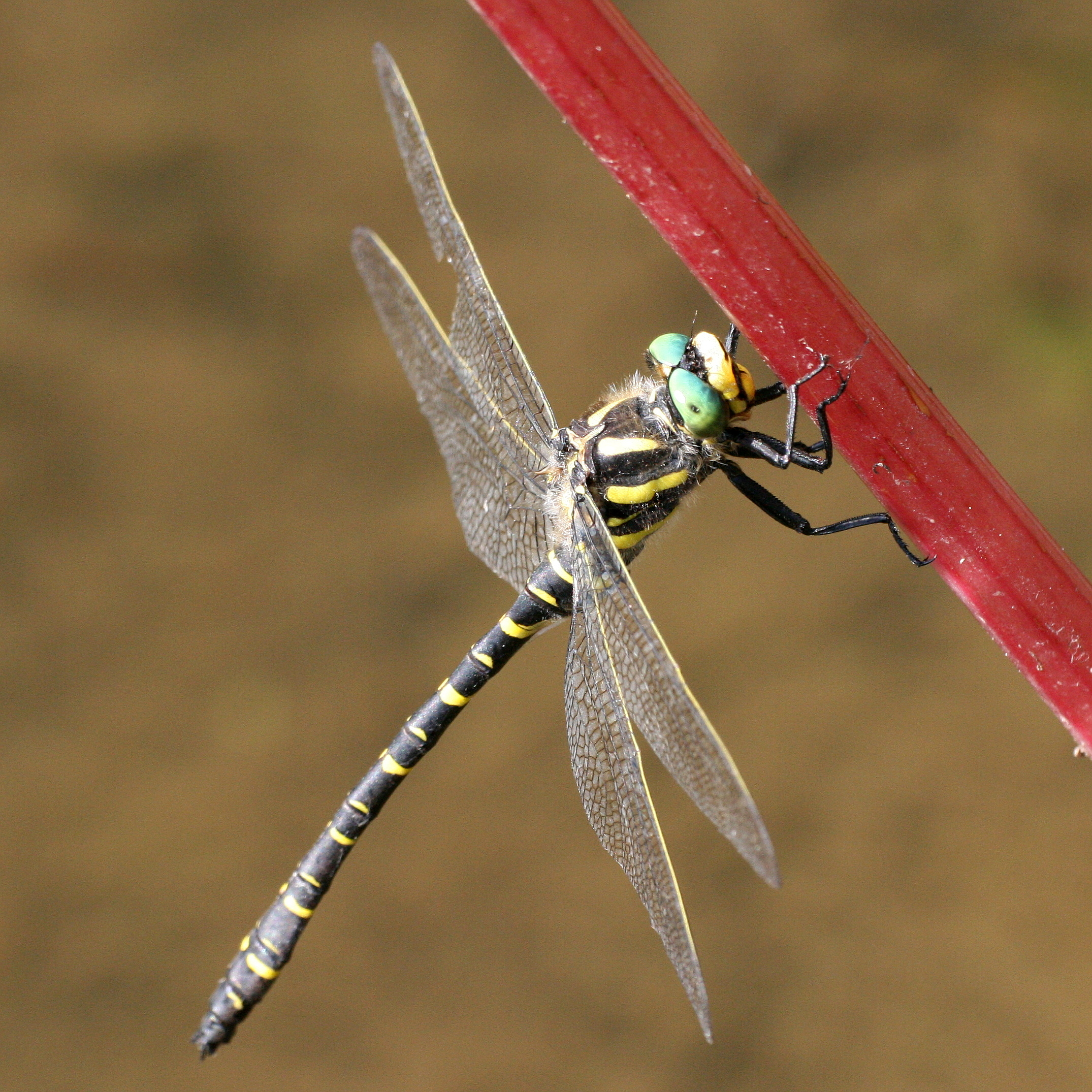 A male Golden-ringed Dragonfly (Cordulegaster boltonii), photographed in Wüstenrot